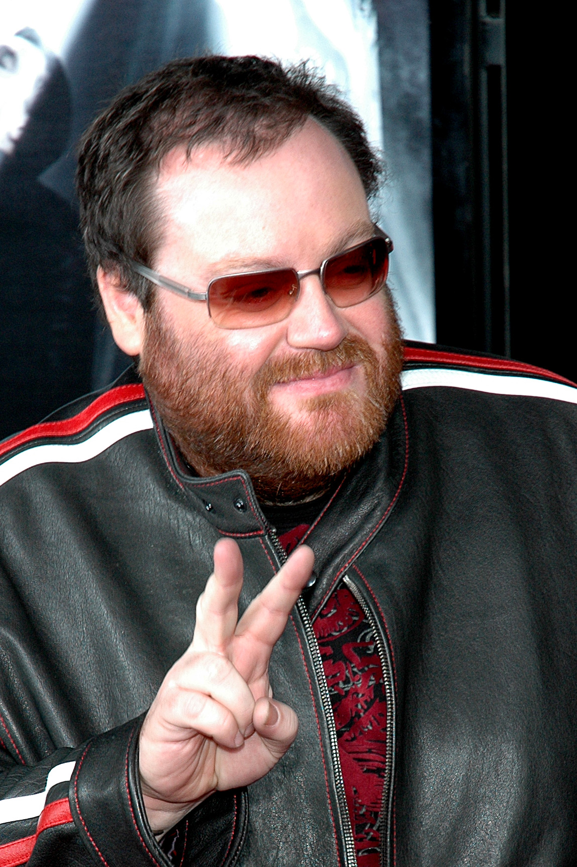 Attending the Premiere of his movie: Max Payne (film), Hollywood, CA on 10-13-08